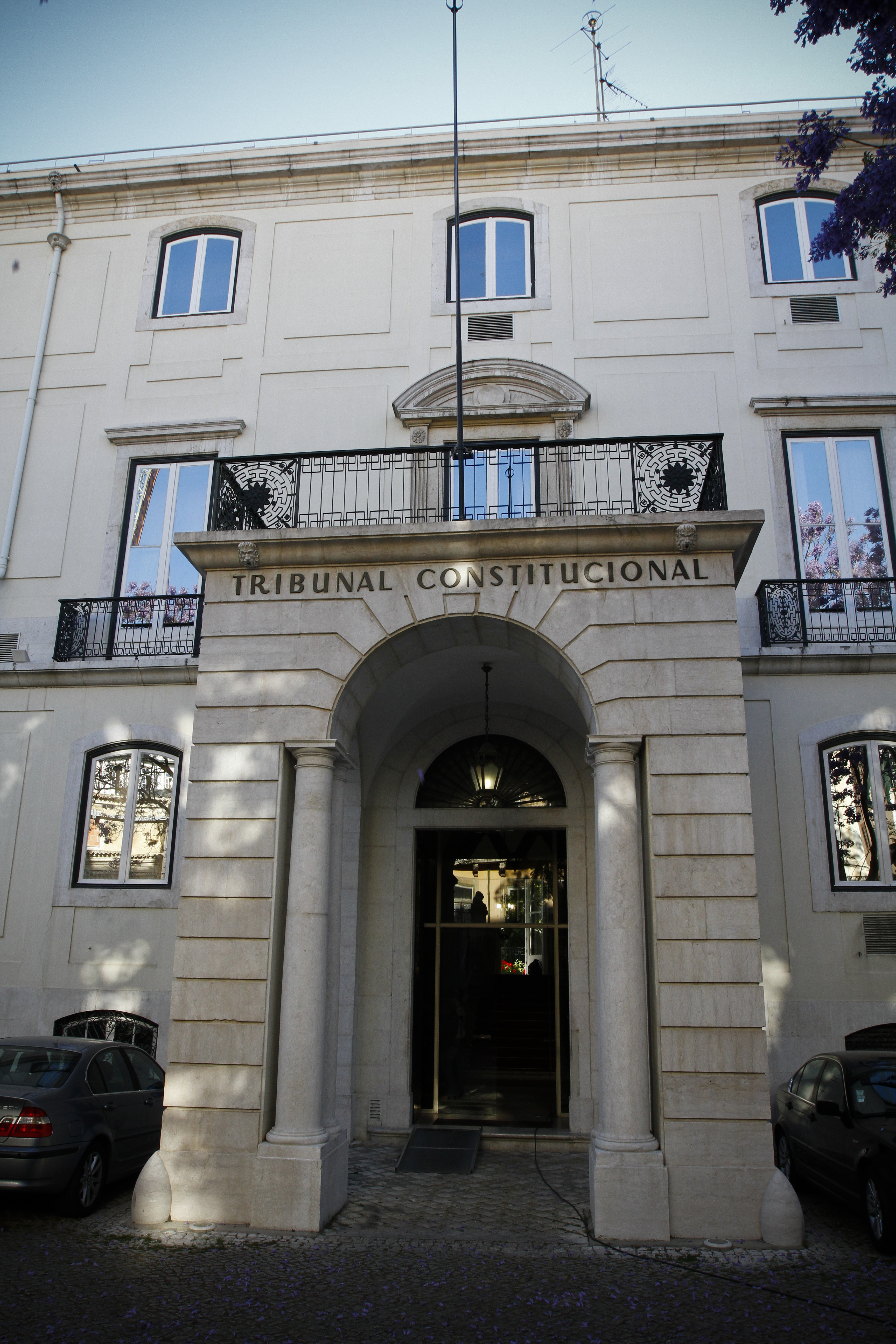 Constitutional Court (Portugal)